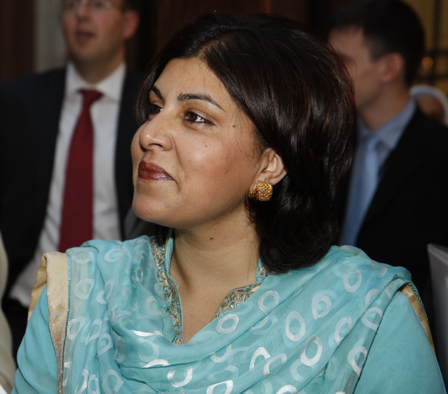 Baroness Warsi, minister without portfolio, spoke at the Eid reception.